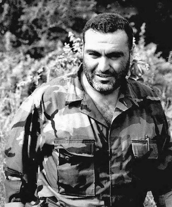 Armenian military hero Vazgen Sargsyan